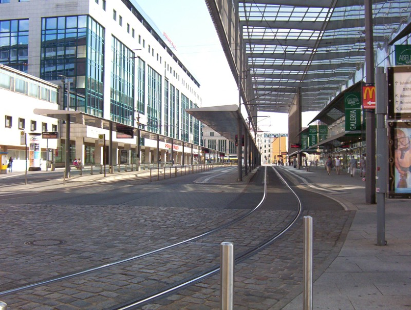 Chemnitz tram terminus.